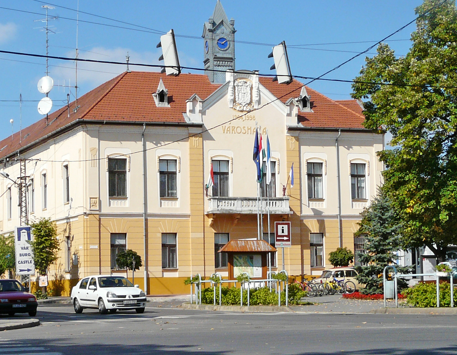 The Town hall of Dunaföldvár